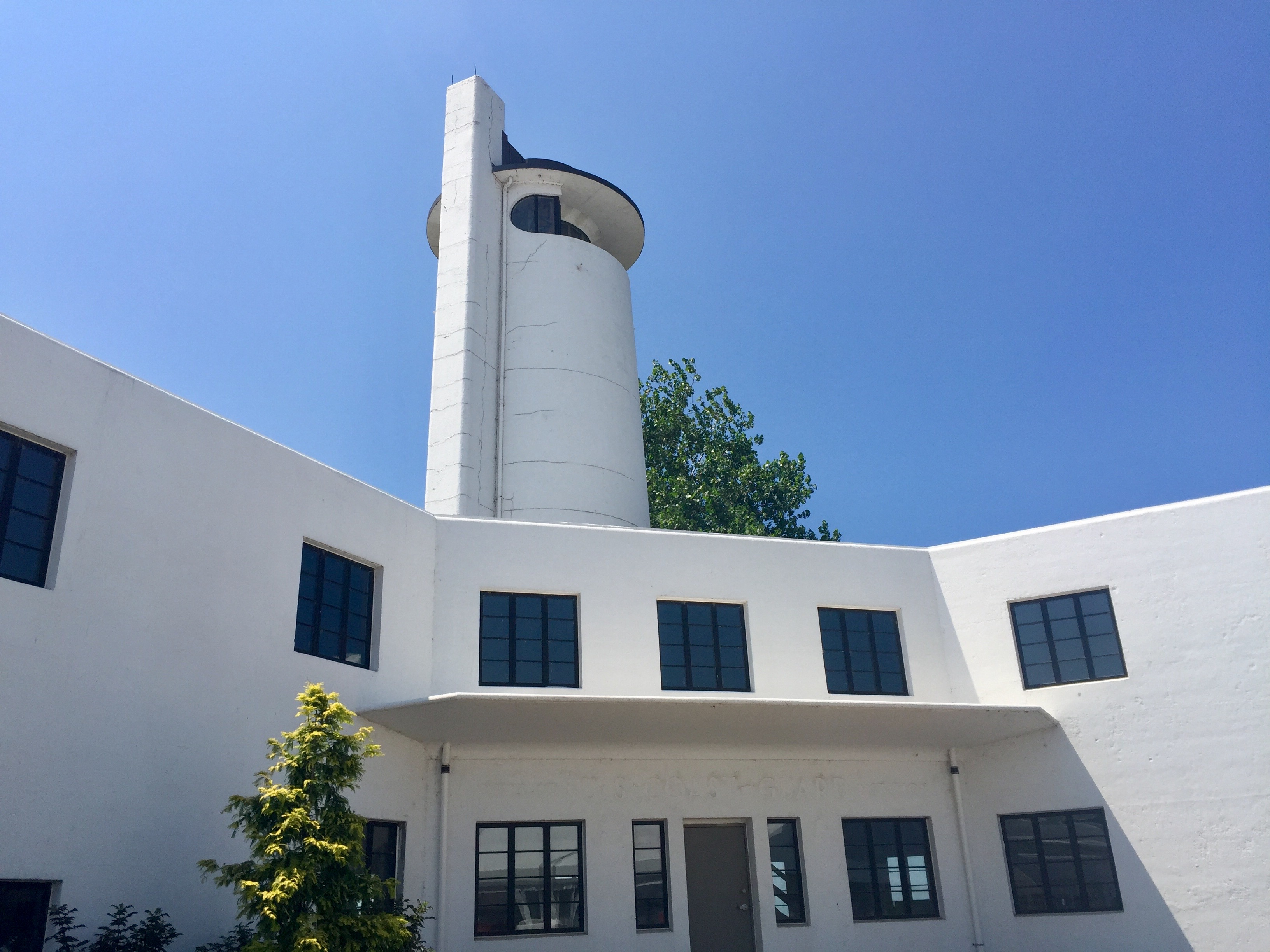 The old Cleveland Coast Guard Station is located on a pier off of Whiskey Island on the west side of the mouth of the Cuyahoga River in Cleveland's Ohio City neighborhood. Constructed in 1940, the Art Moderne-style building was intended by its designer J. Milton Dyer, also known for designing Cleveland City Hall, to be a prototype for many similar stations that would be located around the Great Lakes, but the outbreak of World War II caused those plans to never be carried out. The building features two garages, a streamlined facade, observation tower, and drew heavy inspiration from the appearance and design of ships. The building replaced an earlier, wooden structure on the same site, which had opened in 1876. The building remained in use until 1976, when, a century after the US Coast Guard's arrival on the site, the Coast Guard decamped for a more modern facility on the central lakefront next to Burke Airport. The building was listed on the National Register of Historic Places in 1976, but it languished for much of the late 20th Century and early 20th Century, with the only significant use being a nightclub during the 1990s. The isolated building fell into severe decay until only a few years ago, when Cleveland Metroparks, whom has undertaken improvements at many parks throughout the greater Cleveland region, began the renovation of the structure, which so far has consisted of repainting and repairing the exterior, windows, roofs, and gutting the heavily damaged interior. Today, the building is in a state of incomplete renovation, but has improved in condition significantly, with high hopes by many for its future for the first time in decades, and is a hidden treasure on the city's waterfront.